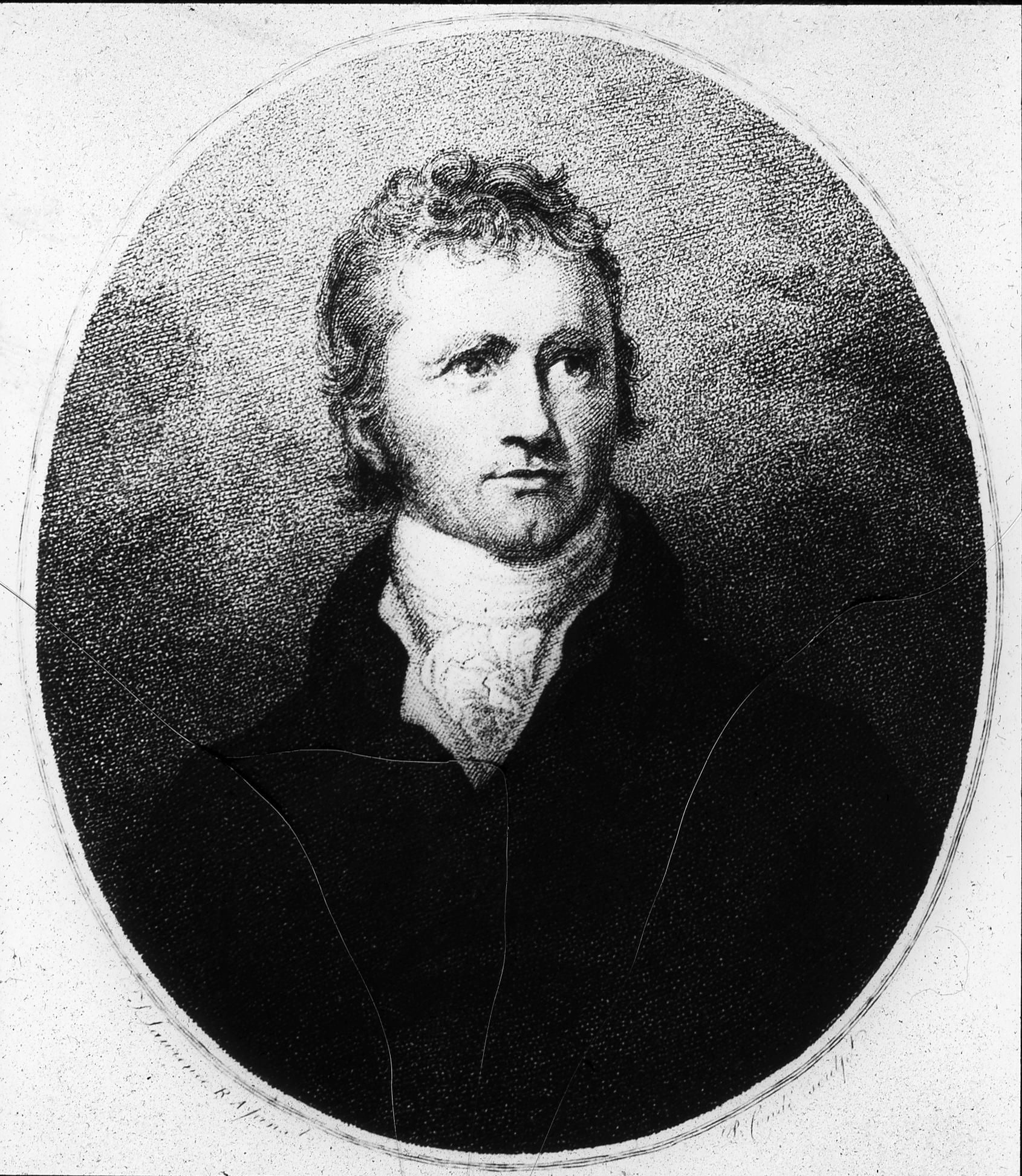 In 1789, Alexander Mackenzie, who was a partner in the Northwest Fur Company, began exploring the west and discovered the Mackenzie River, which was, of course, named for him. He and his party are also credited with the first overland journey across North America. Original Collection: Visual Instruction Department Lantern Slides Item Number: P217:set 038 002 You can find this image by searching for the item number by clicking Want more? You can find more We're happy for you to share this digital image within the spirit of The Commons; however, certain restrictions on high quality reproductions of the original physical version may apply. To read more about what “no known restrictions” means, please visit the or contact staff at the OSU Special Collections & Archives Research Center for details.